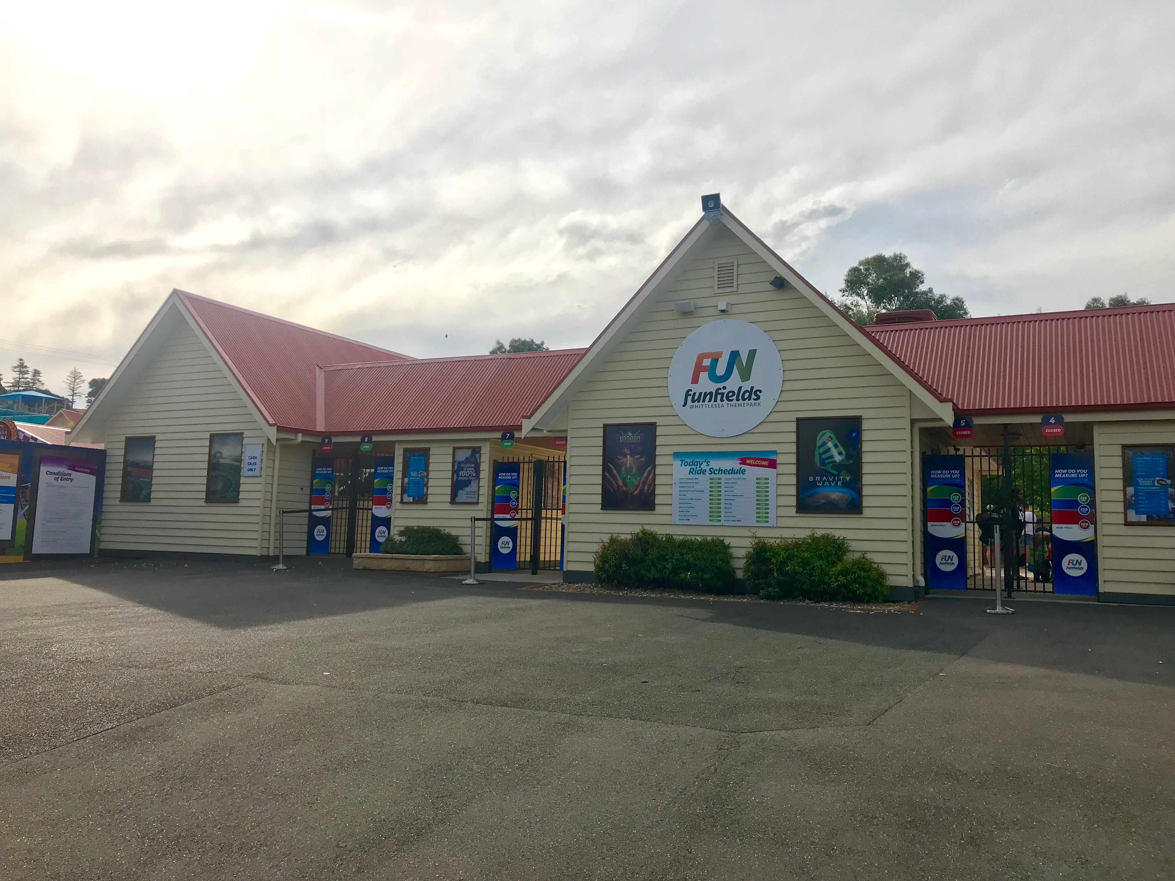 The entry gates to Funfields Theme Park in Whittlesea, Victoria, Australia.